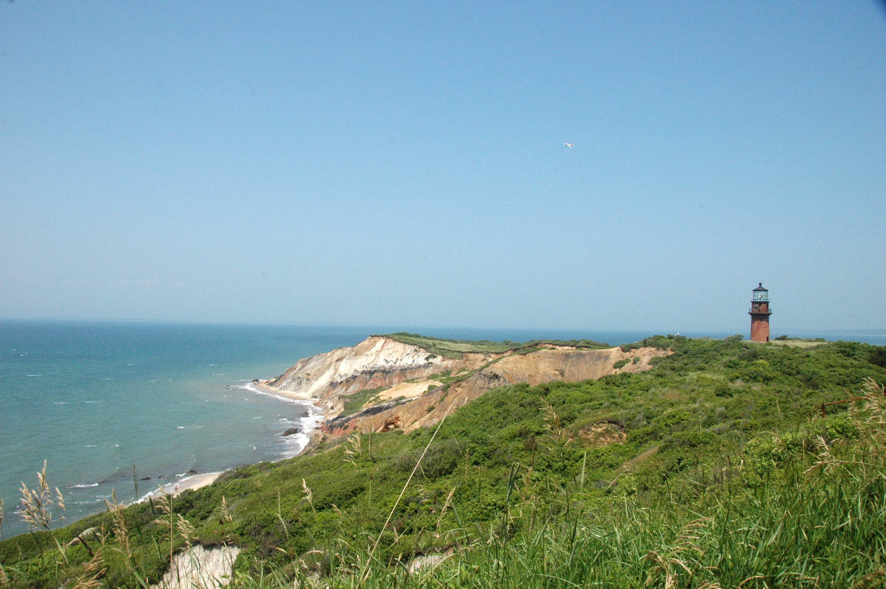 Martha's Vineyard, Massachusetts